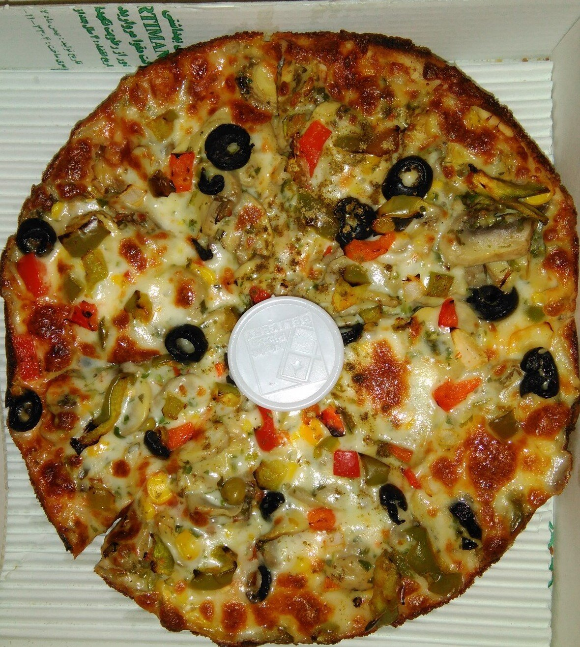 Vegetable Pizza in iran, Esfahan